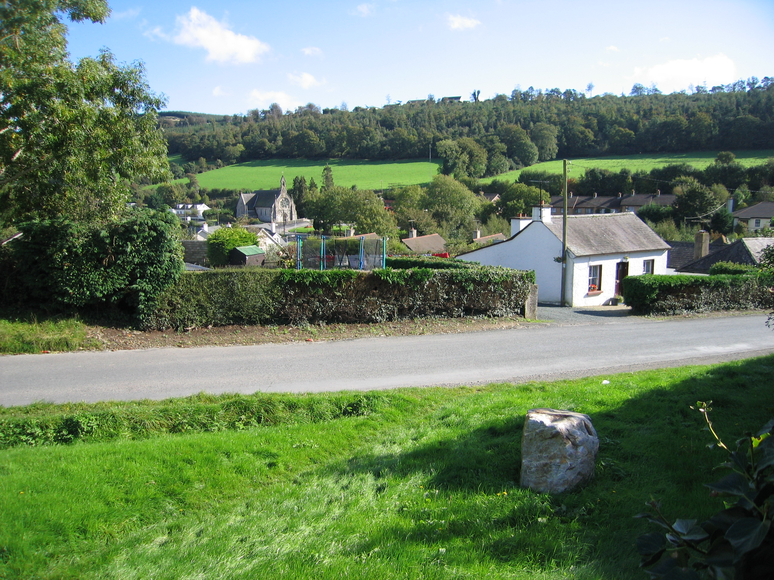 Glenealy Village showing Catholic Church